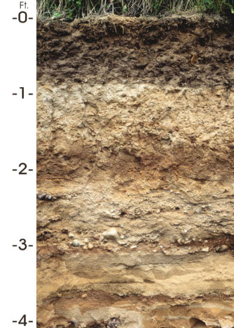 Antigo soil profile from USDA website of state soils (ftp://ftp